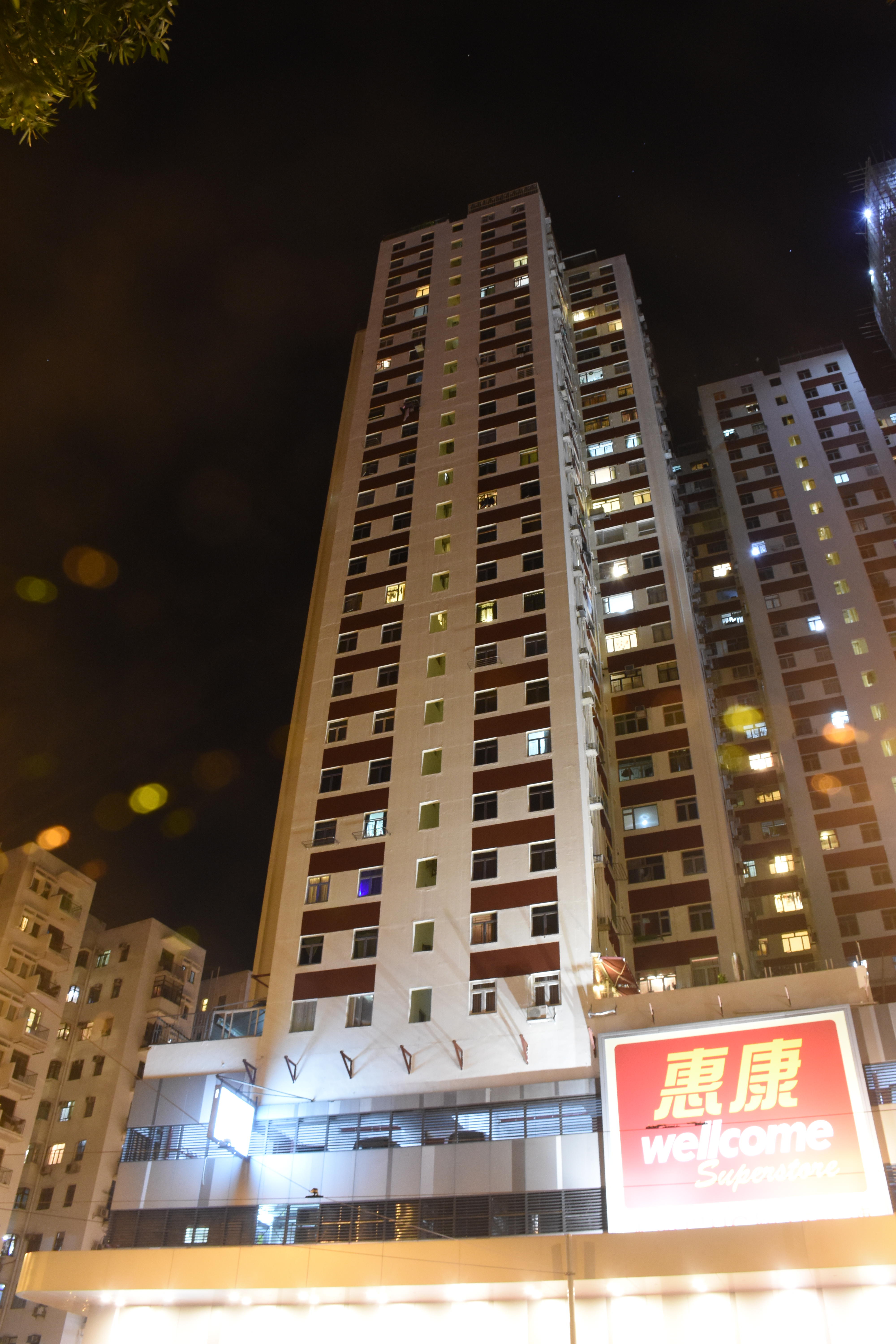 After renovation works of Healthy Gardens Block C.